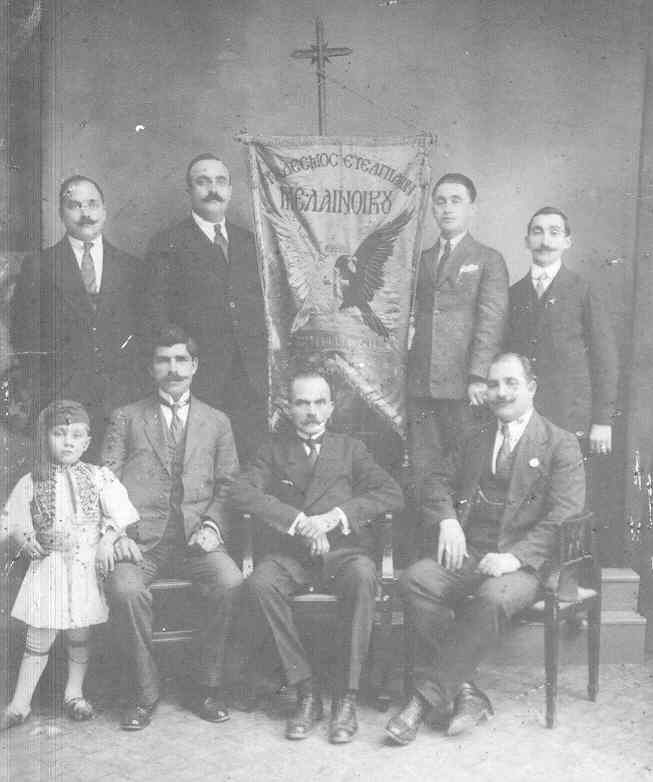 Members lik Melenikou